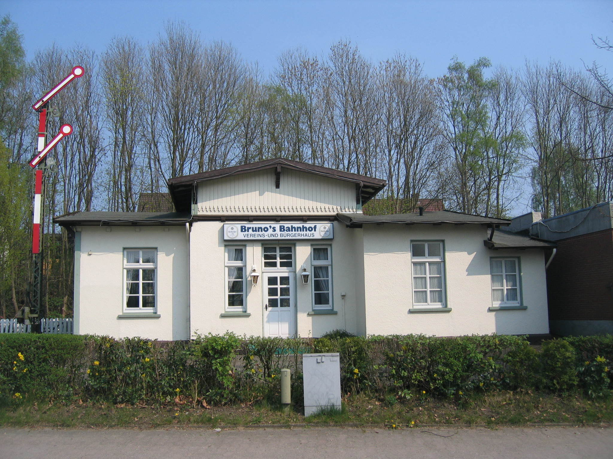 Old train station in Rödinghausen, District of Herford, North Rhine-Westphalia, Germany.